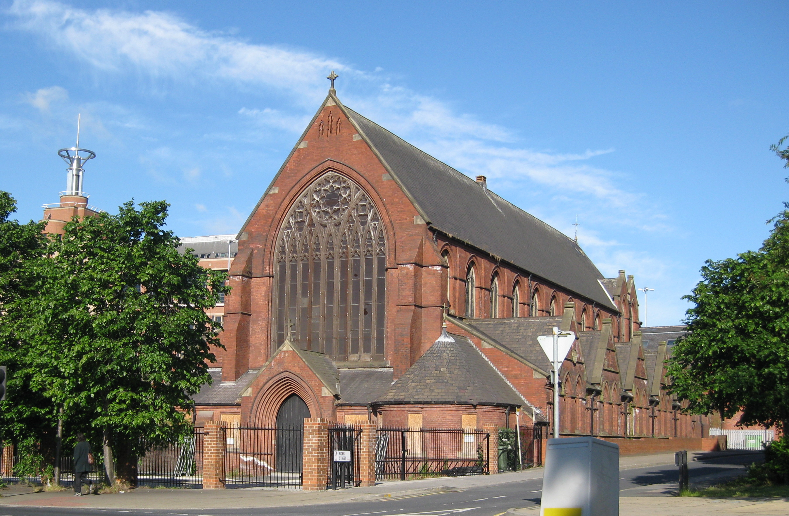 Former Roman Catholic church of St Patrick, Rider Street, Leeds, West Yorkshire, seen from the east